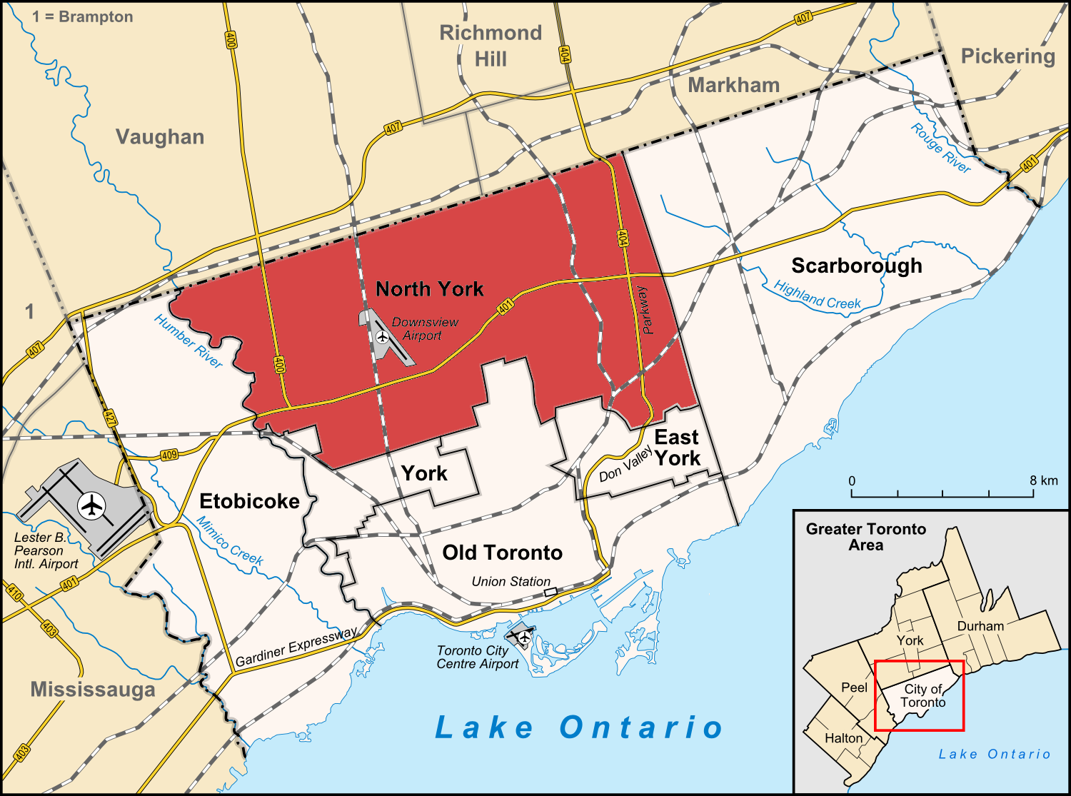 Map of Toronto